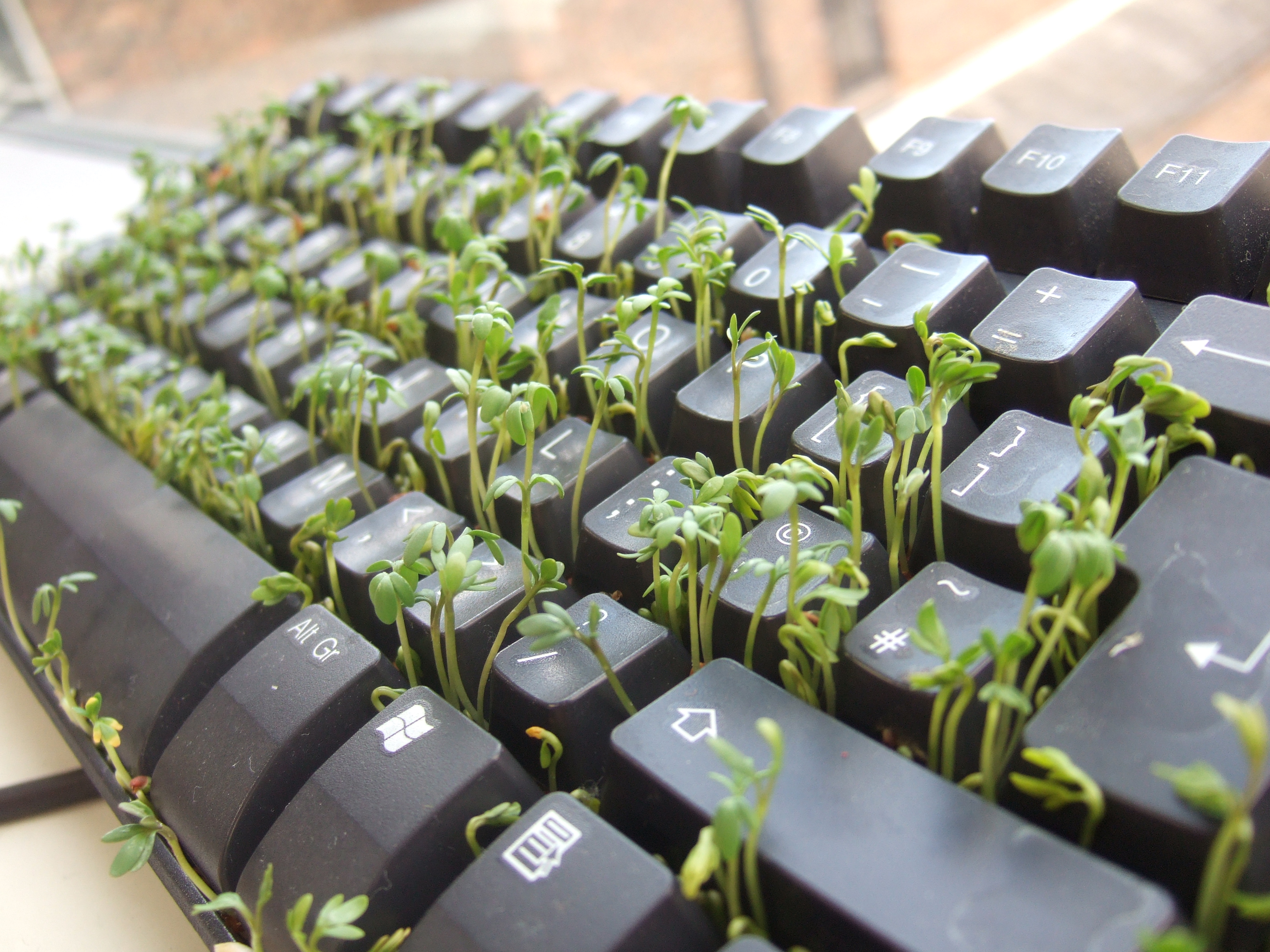 Lepidium sativum - Cress growing in a keyboard.